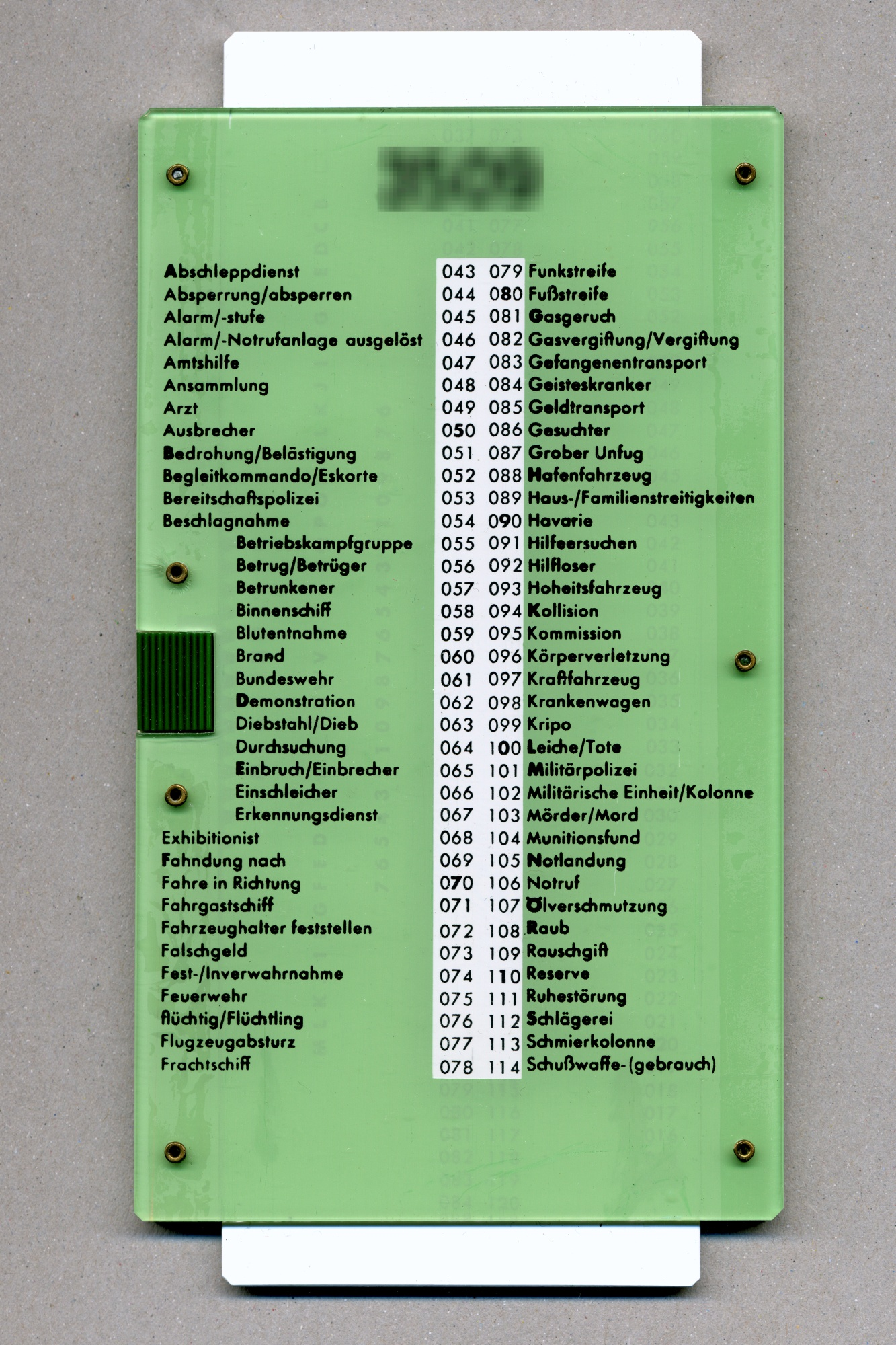 Slider for crypting, model Munich, was used by German police in radio communication